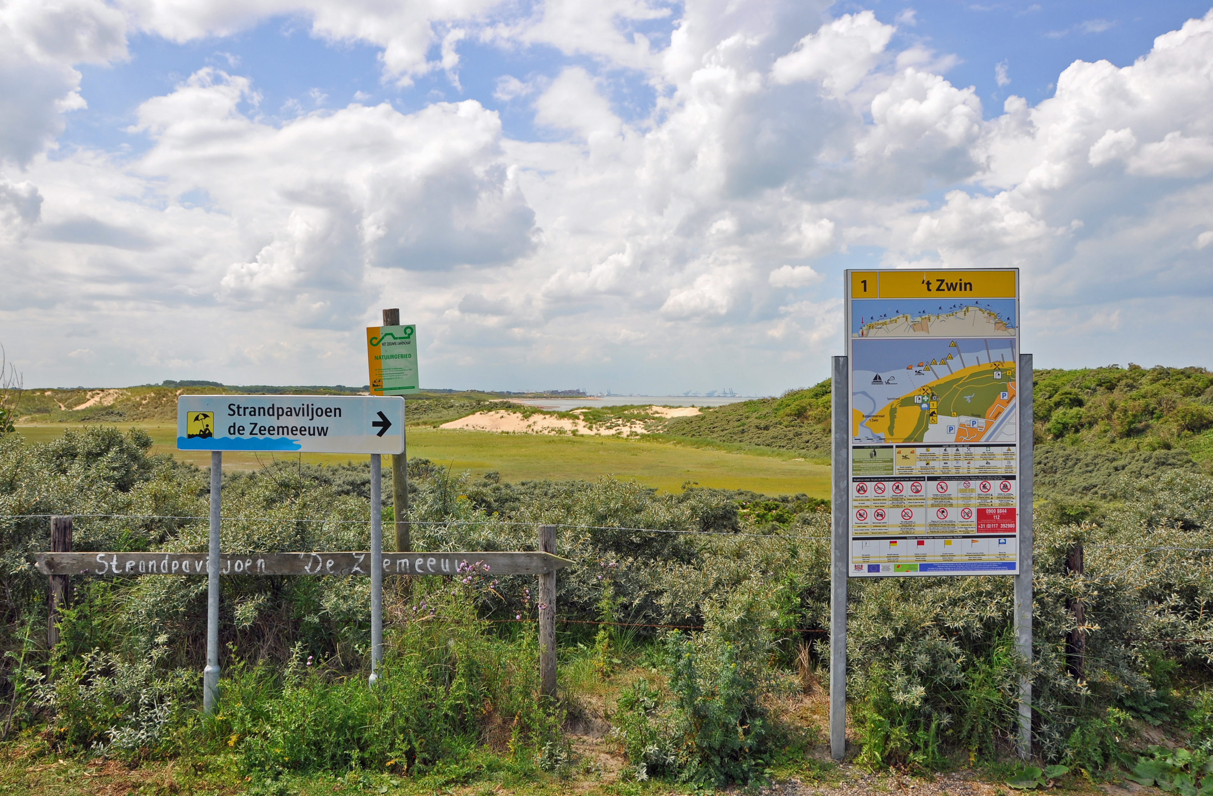 Cadzand (the Netherlands): nature reserve Zwin